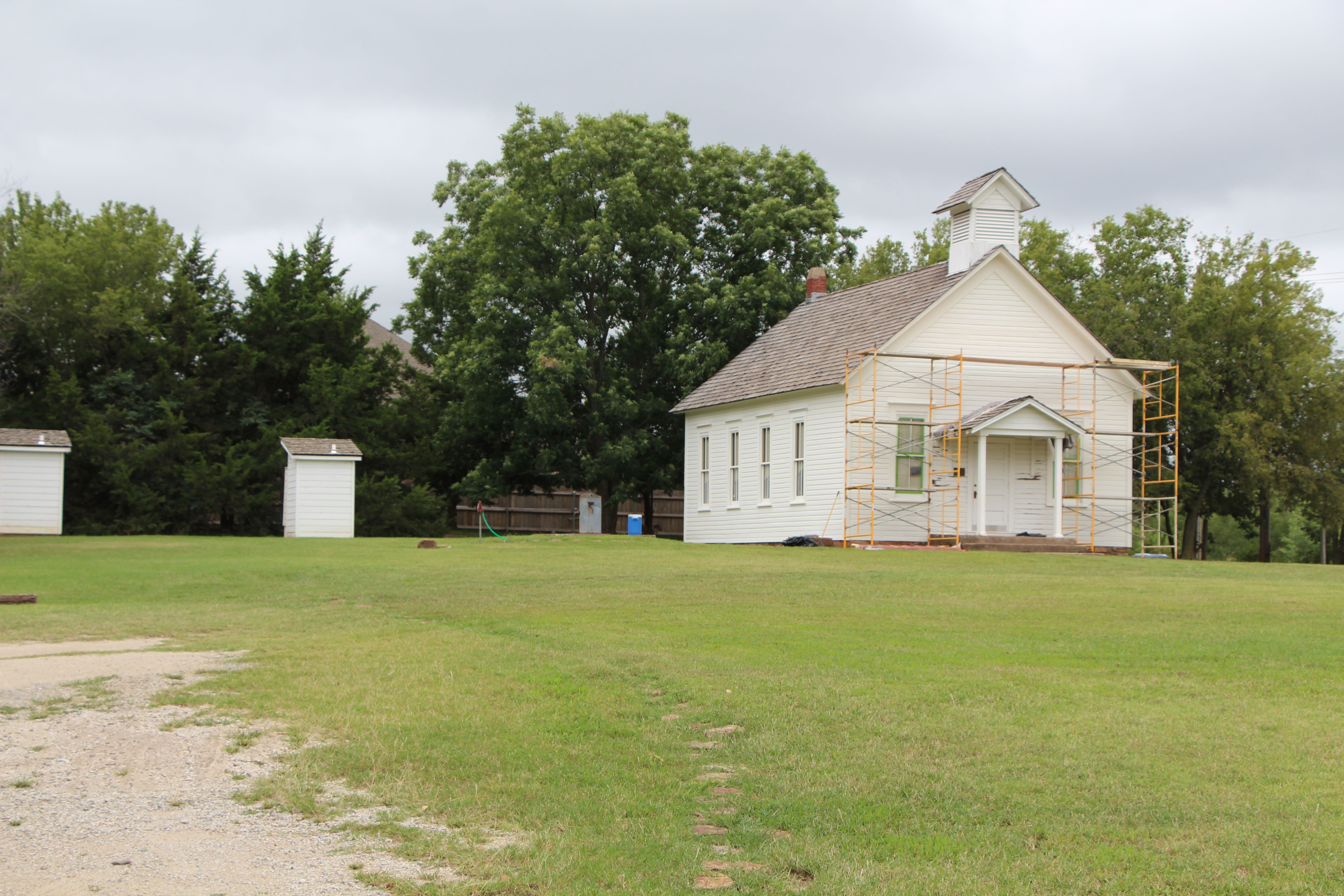 Pleasant Valley School, 1901 S. Sangre Rd. Stillwater, Oklahoma